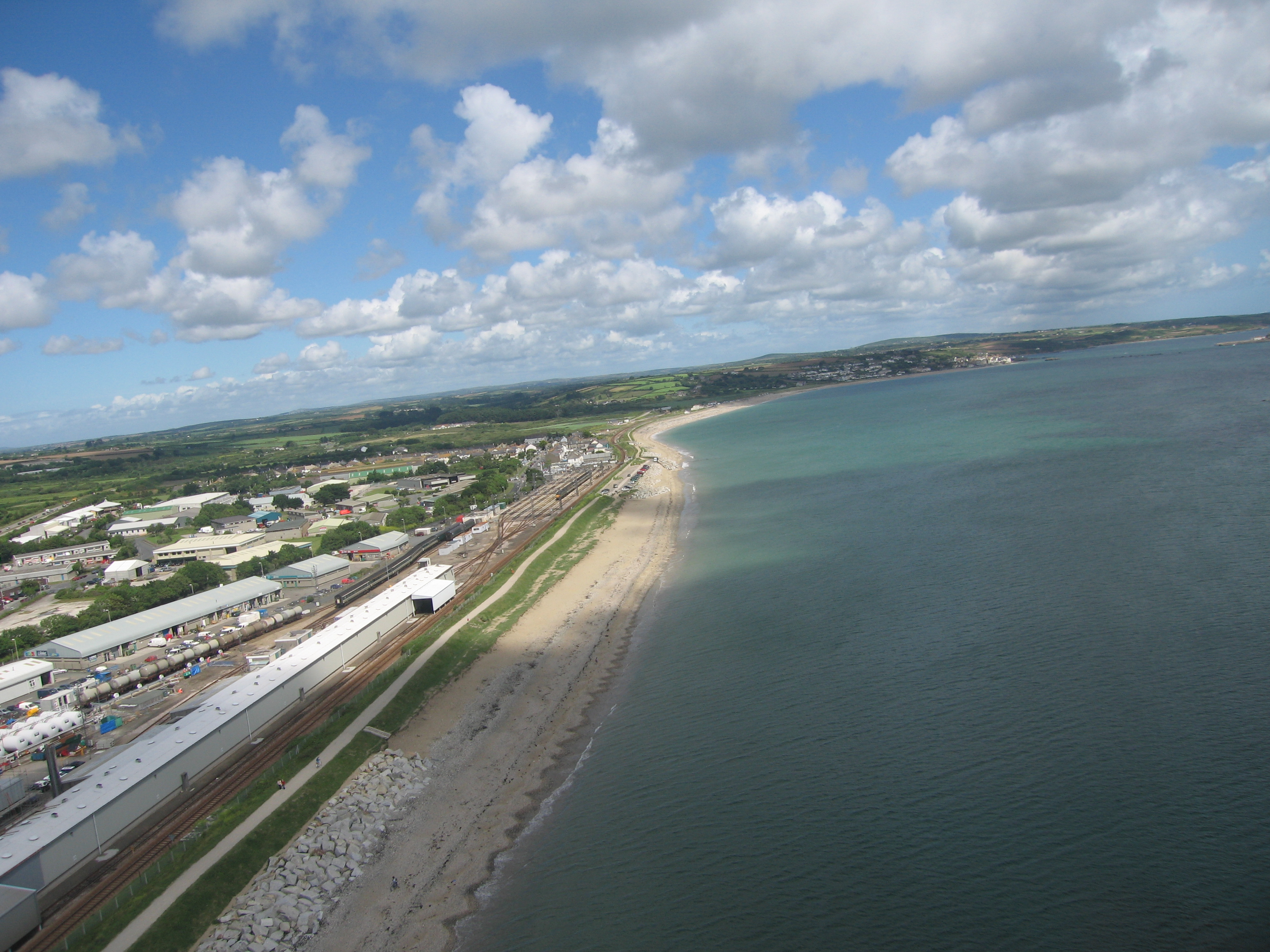 Mount's Bay.